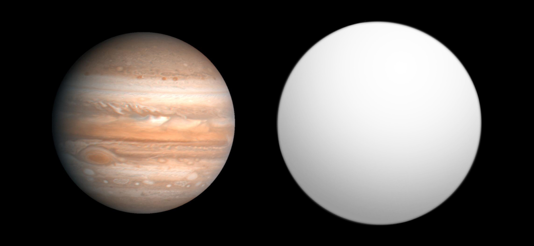 Comparison of best-fit size of the exoplanet WASP-28 b with the Solar System planet Jupiter, as reported in the Open Exoplanet Catalogue[1] as of 2015-11-14. ↑ Open Exoplanet Catalogue (2015-11-14). Retrieved on 2015-11-14.